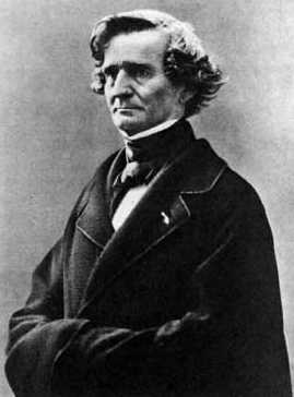 Photo of Hector Berlioz (1803 – 1869)